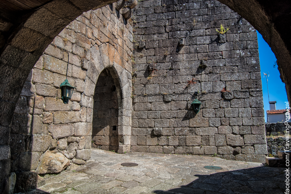 Castle of Vila Nova de Cerveira